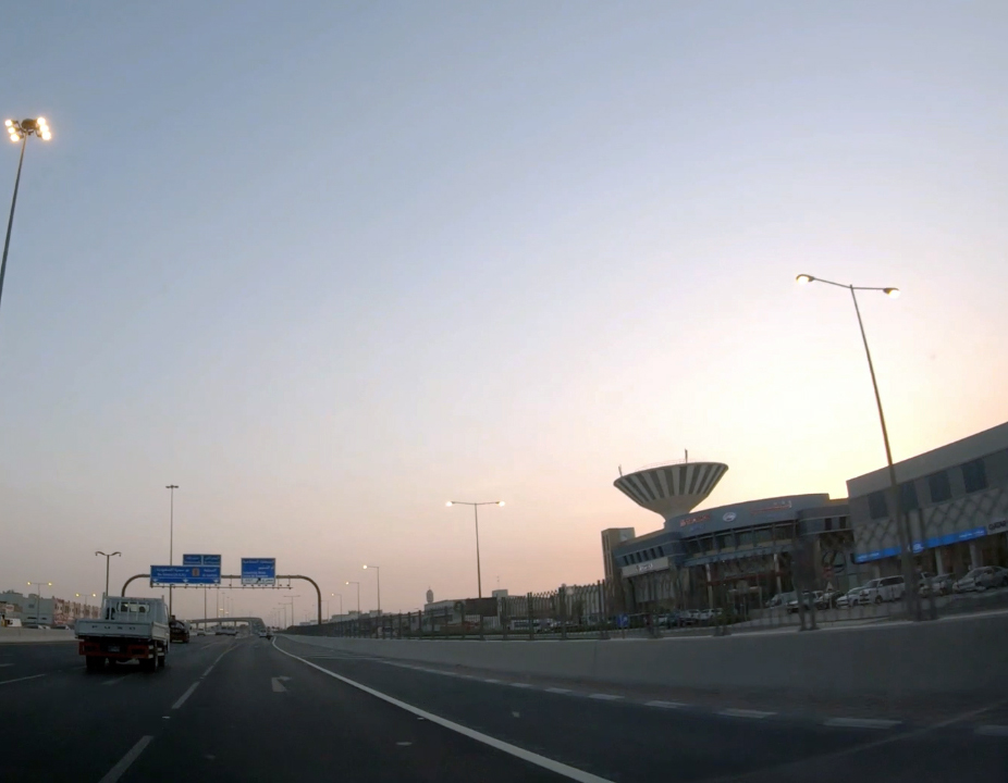 View of Al Tadamon Motors and a water tower in Fereej Al Murra off of Salwa Road in Al Rayyan, Qatar.